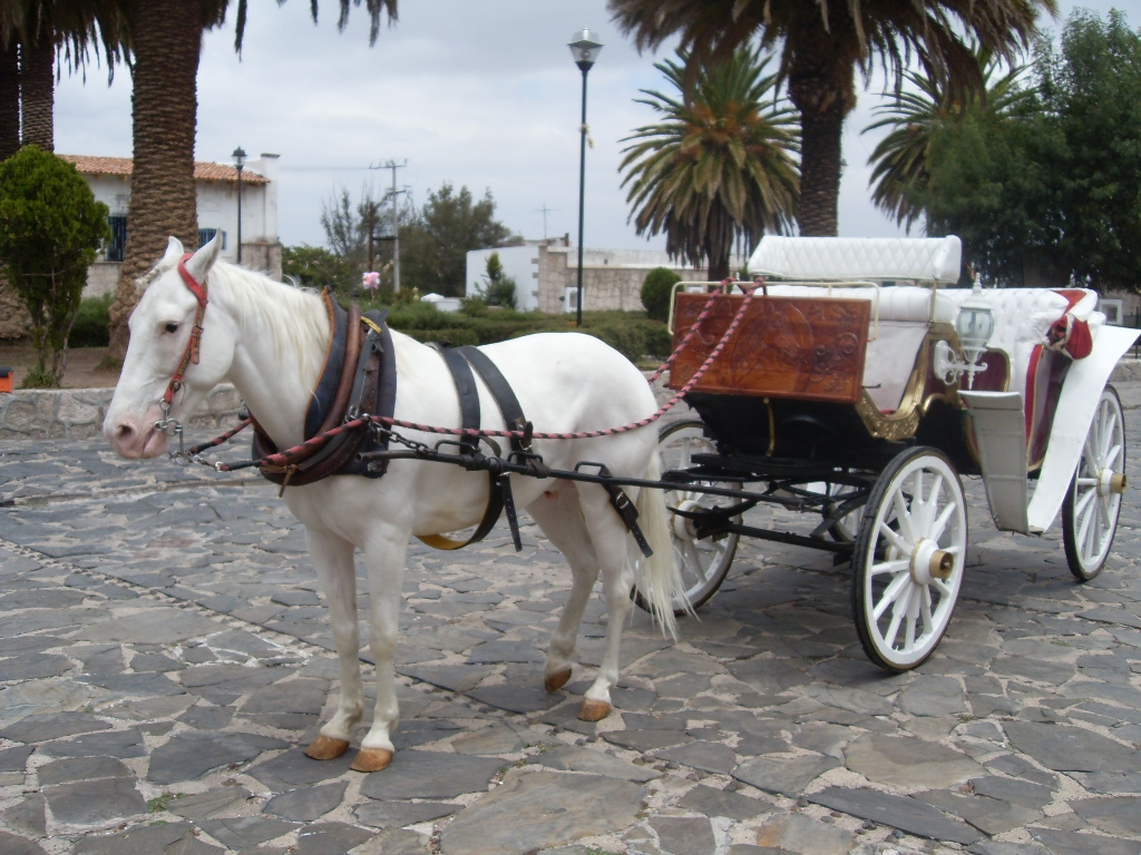 ACULCO HORSES